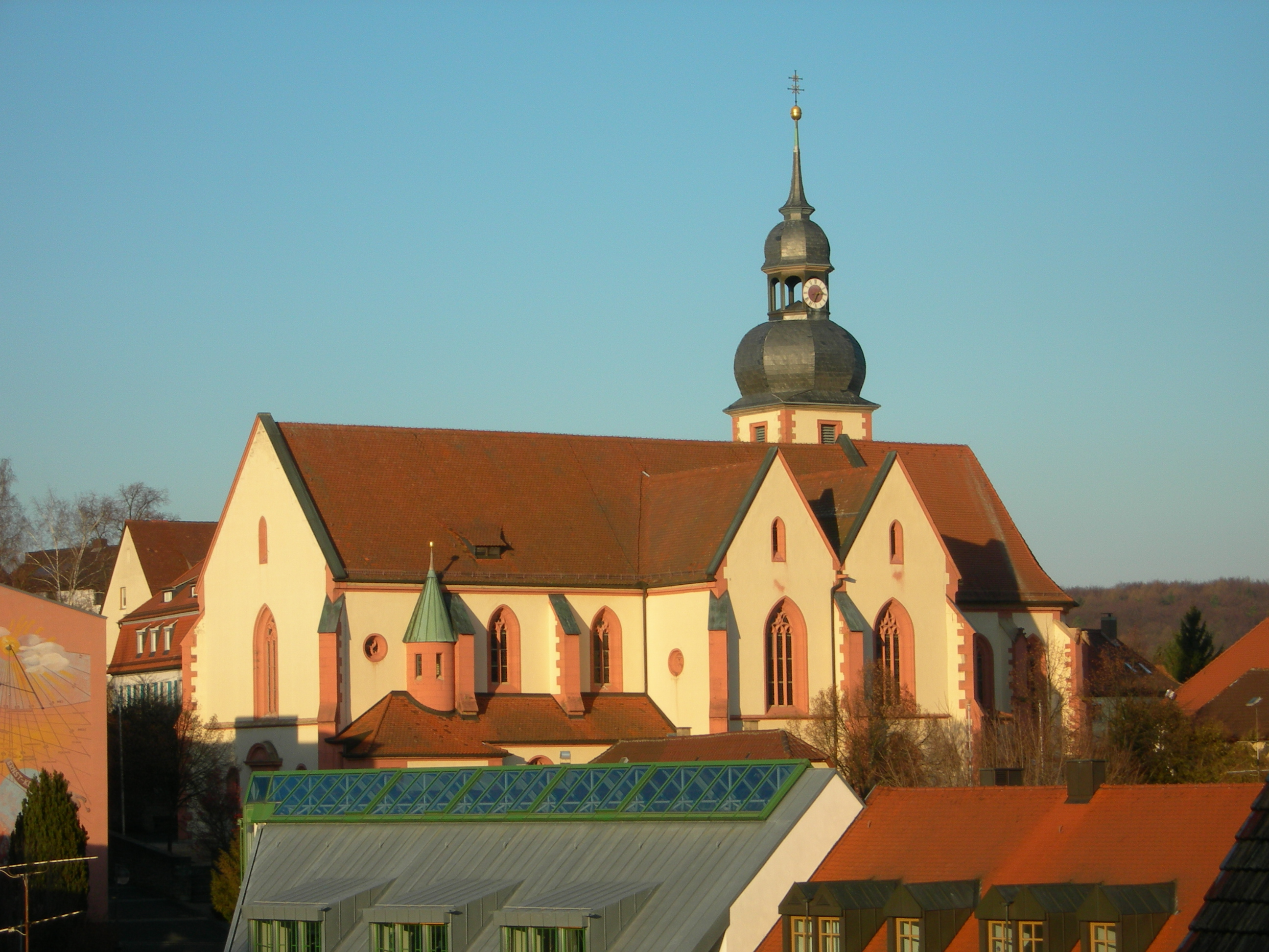 View onto the Mariä Geburt church in Hoechberg.